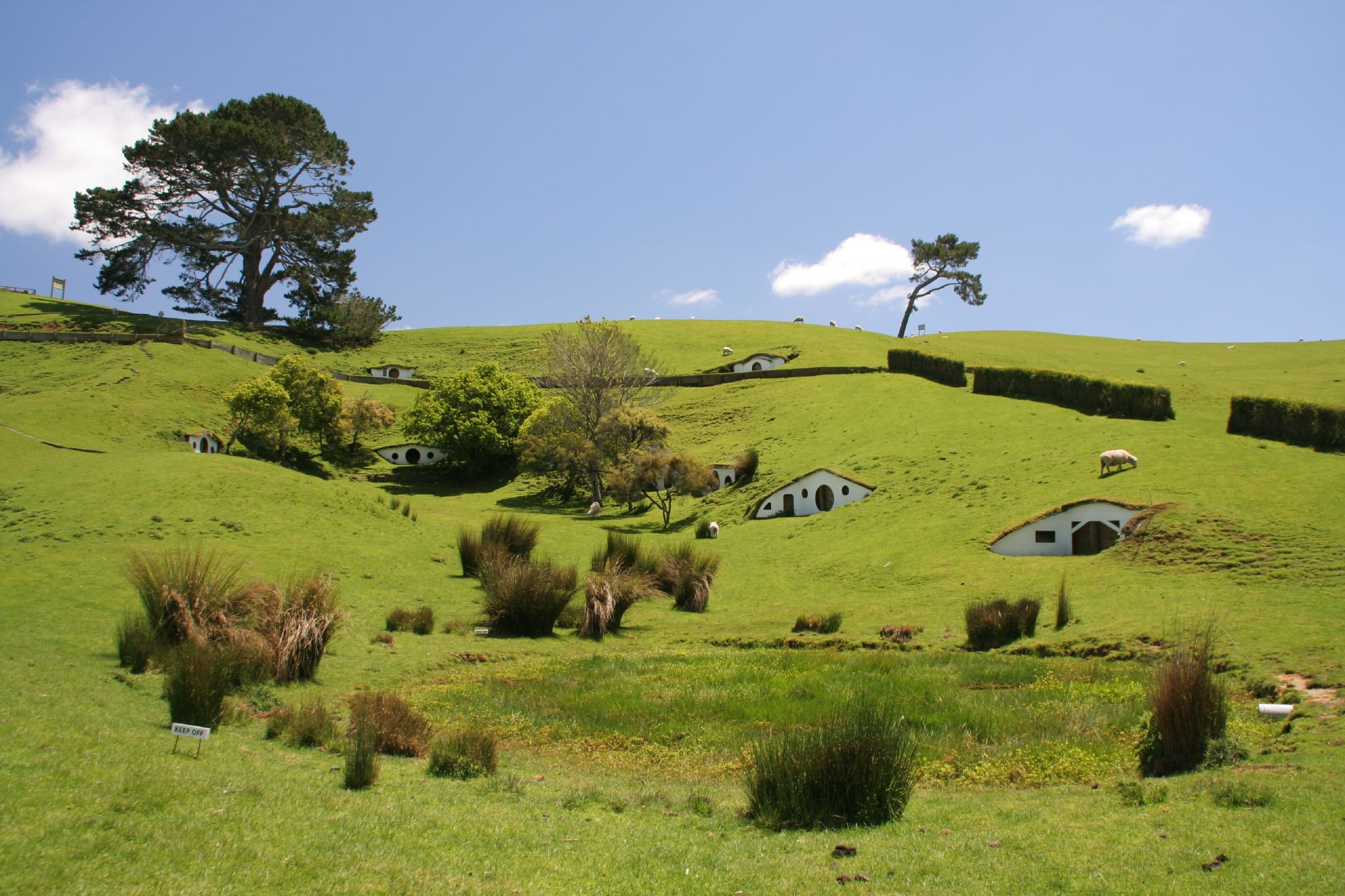 On location at Hobbiton, New Zealand, as used in the Lord of the Rings movies.